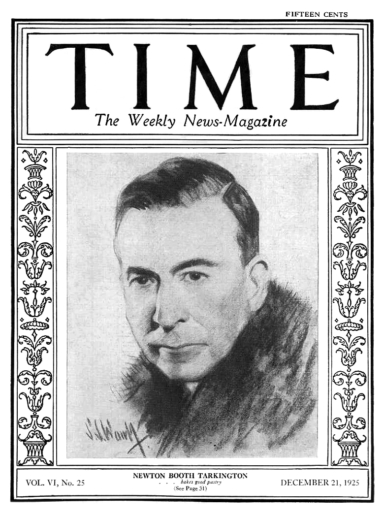 Time magazine, Volume 6 Issue 25. Front cover is an illustration of Booth Tarkington by S. J. Woolf (1880–1948).